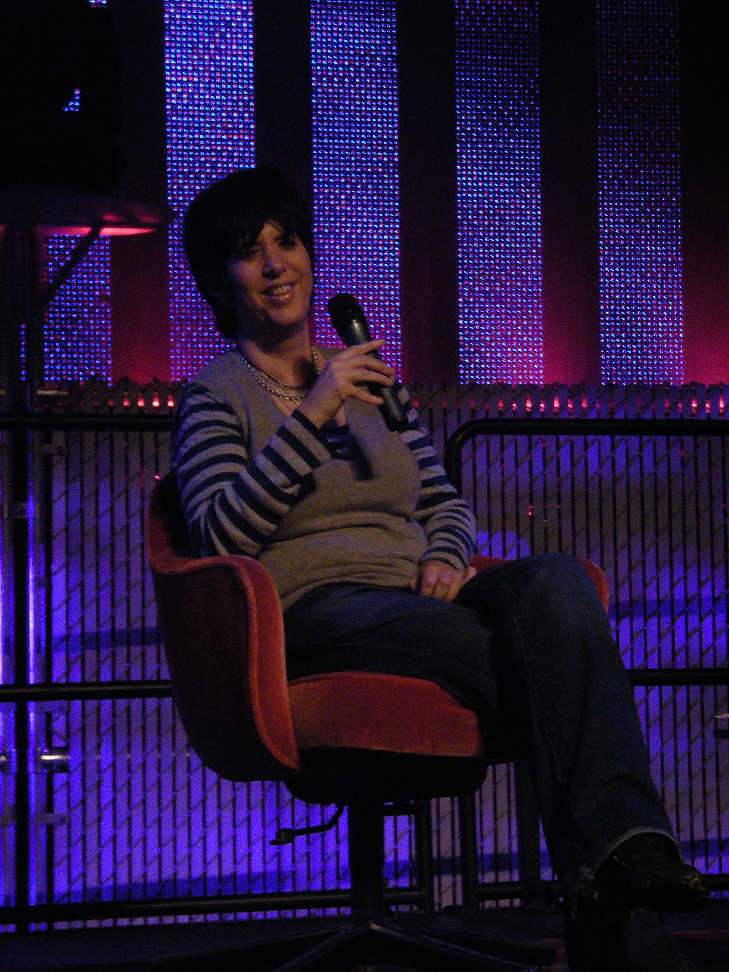 Diane Warren appearing at 2009 Pop Conference, Experience Music Project, Seattle, Washington.